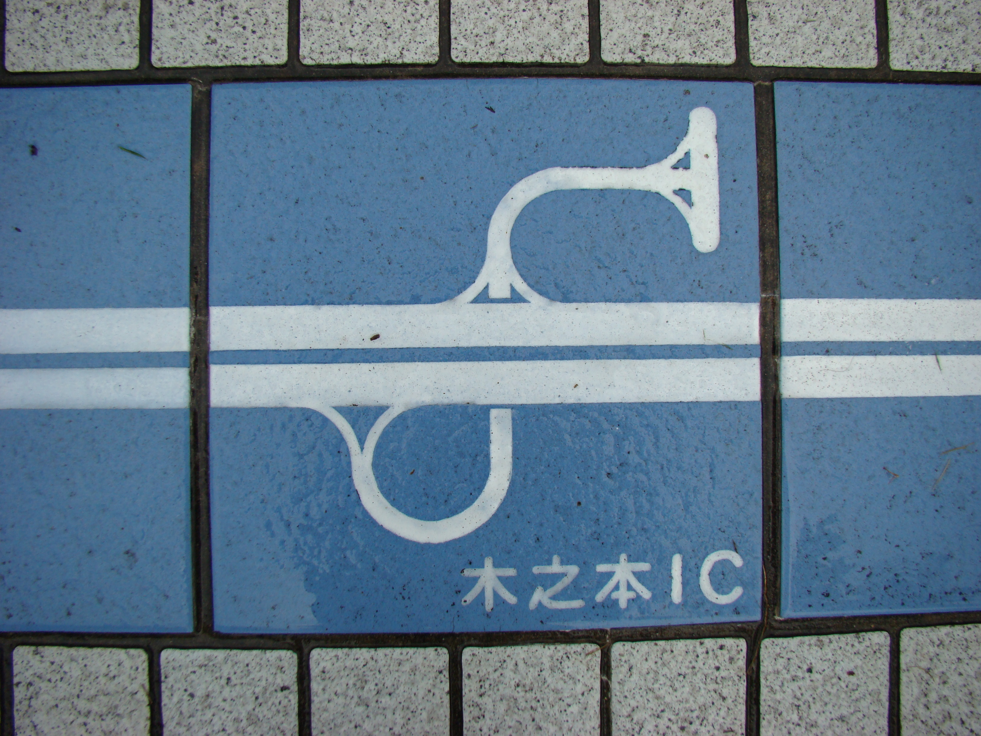 The tile which designed a shape of the Kinomoto Interchange（Hokuriku Expressway）（There is this tile in Hokuriku Expressway Nadachi-Tanihama Service Area.）. Place - Chayagahara,Joetsu City,Niigata Prefecture,Japan Date - August 9, 2009 Format - JPEG, 3264x2448pixel, 24bit colors. Photographer - NALA Wiki (talk)